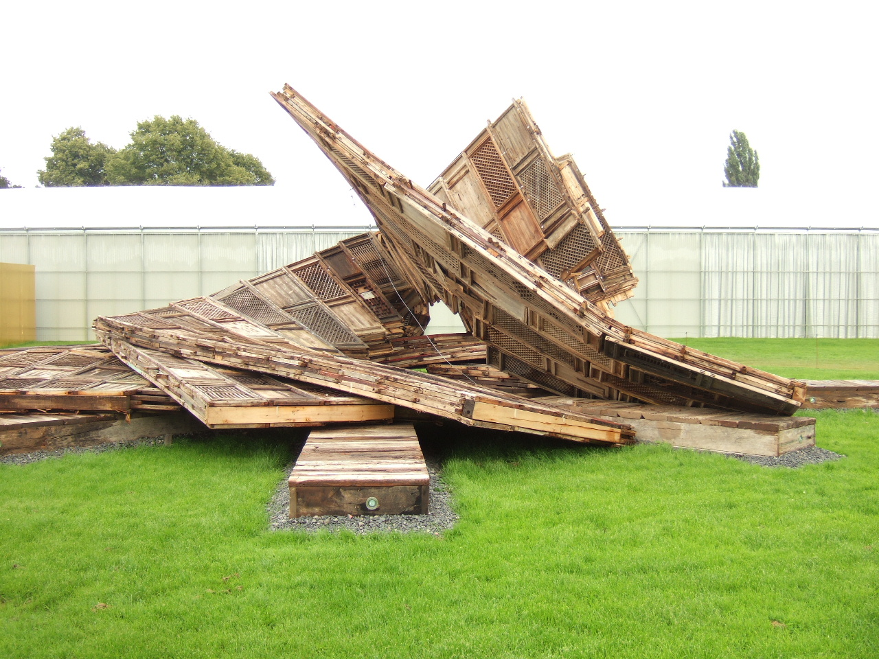 Ai Weiwei: "Template" (2007) after collapse